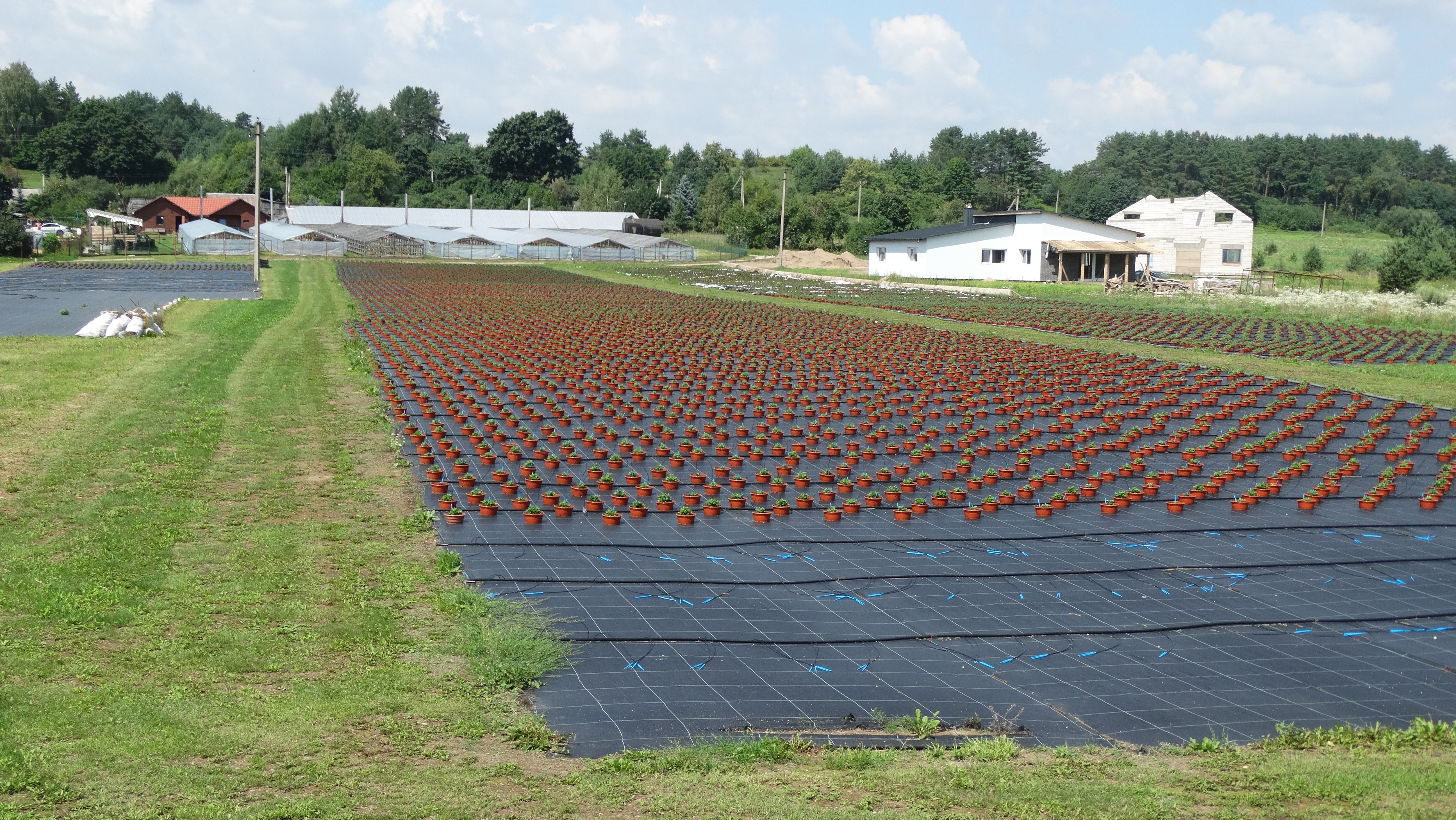 Flower farm in Šančiai, Kaunas district, Lithuania